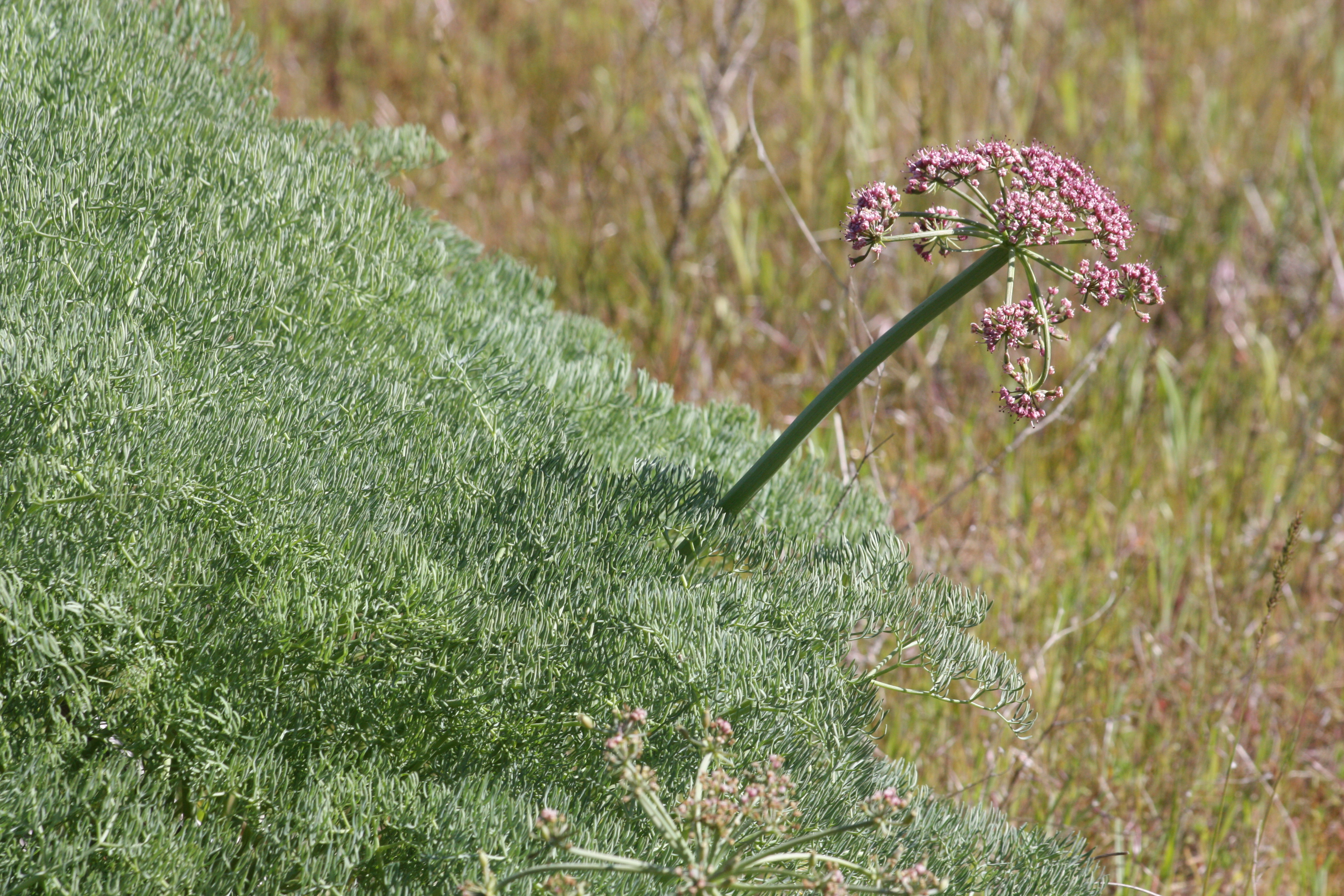 Columbia Gorge Desert-parsley Viewpoint location: McCall Point Trail, Mayer State Park Viewpoint elevation: 234 meter (769 ft) Location source: Garmin GPSmap 60CSx Location Datum: WGS84